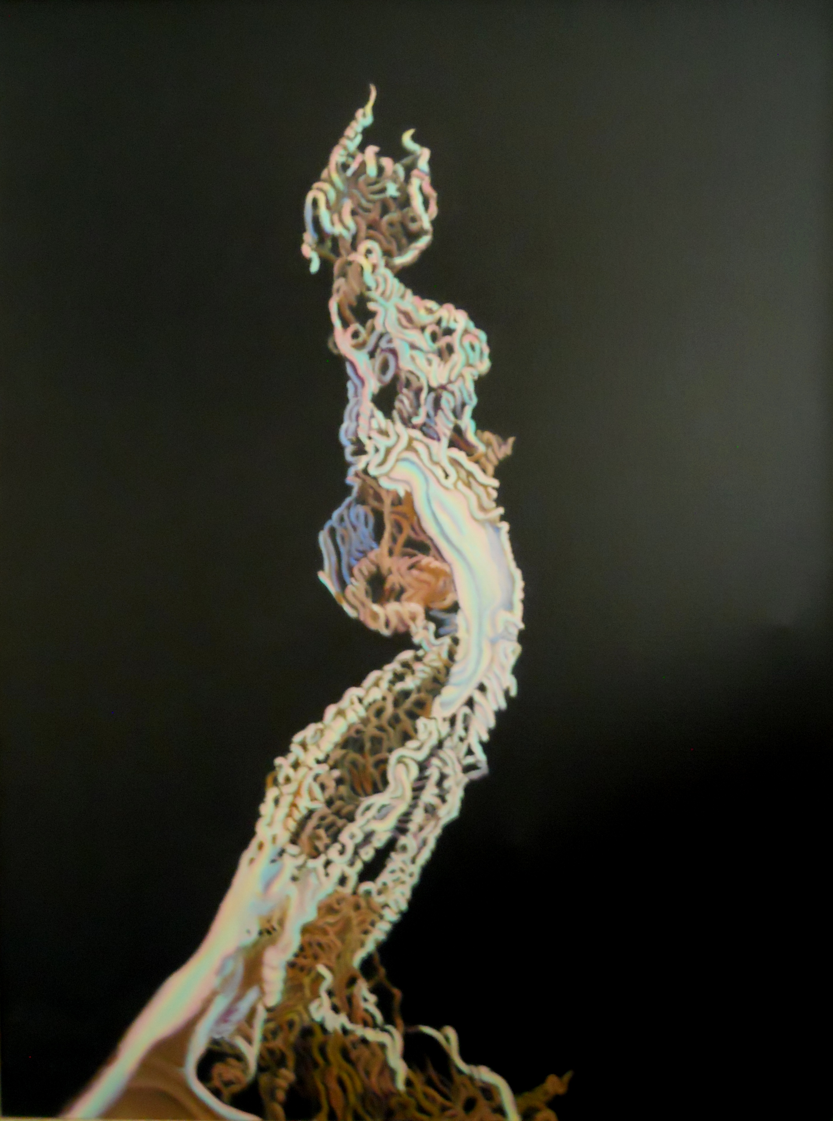 This painting was derived from a black and white print of of a 10,000 magnification of an ammonium carbonate crystal under an electron microscope. It is painted in oil on canvas.